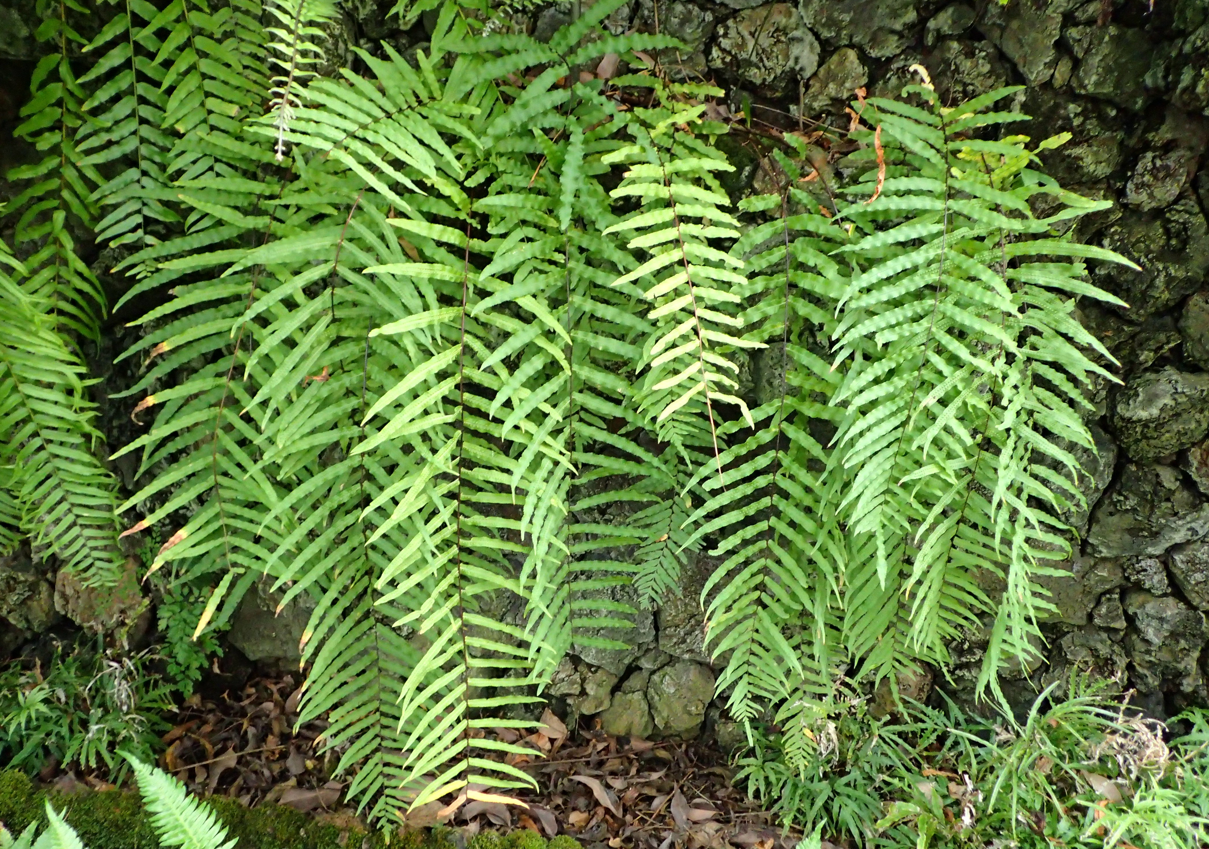 Goniophlebium subauriculatum in Jardín de Aclimatación de la Orotava